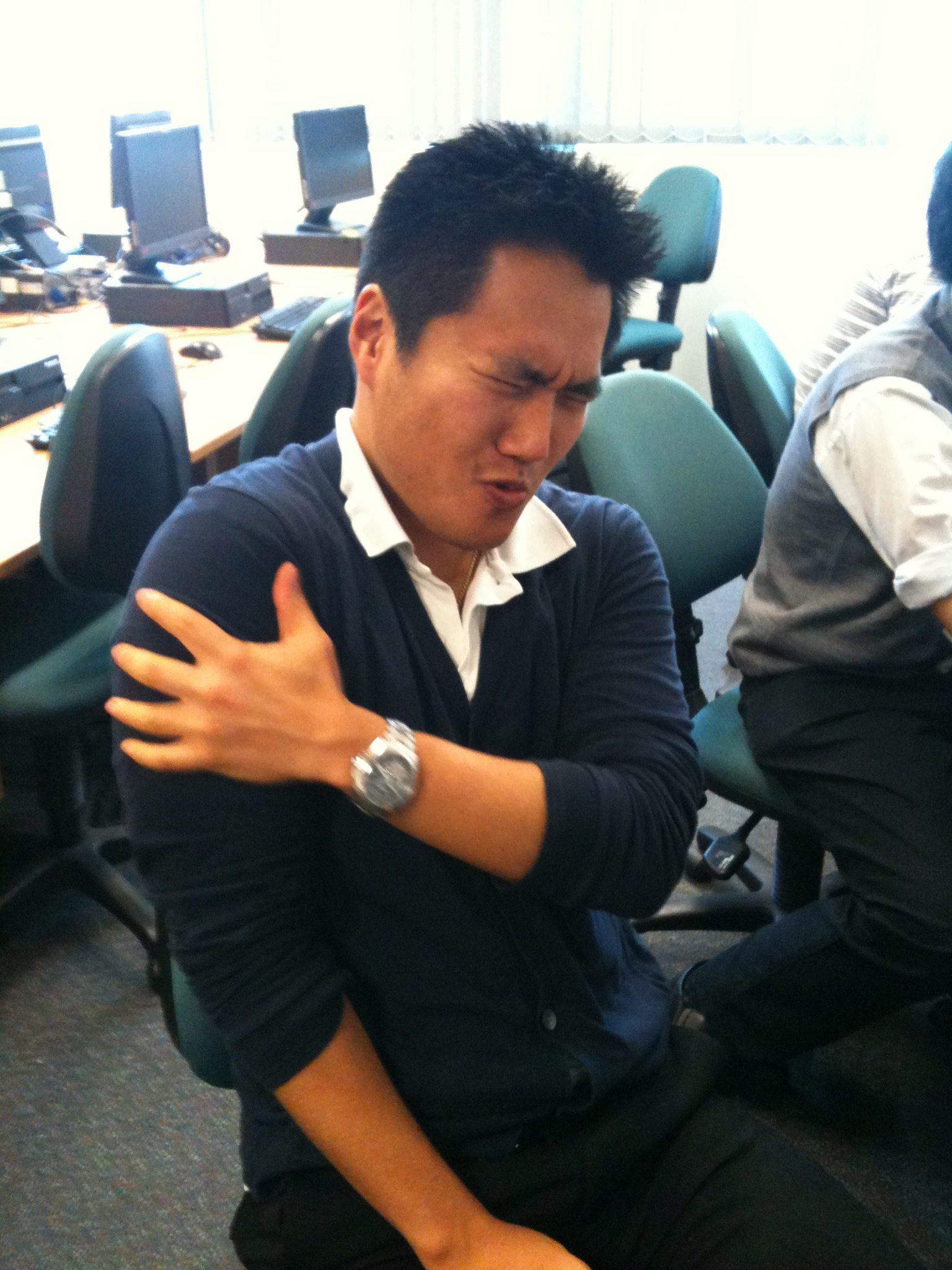 Myalgia after overuse